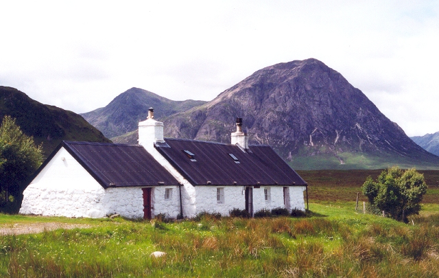 Black Rock Cottage. Buachaille Etive Mor in the background. Black Rock Cottage is a climbing hut belonging to the Ladies Scottish Climbing Club